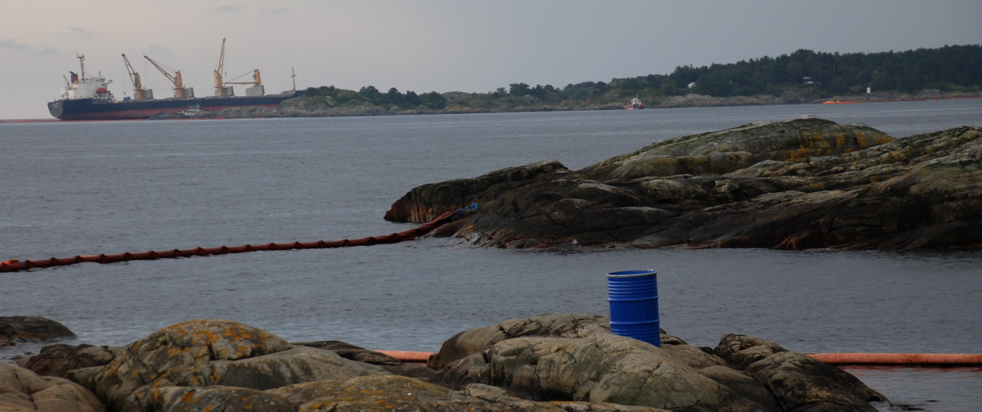 The Stranded Bulk Carrier Full City as seen from Hydrostranda, close to Langesund, Norway.